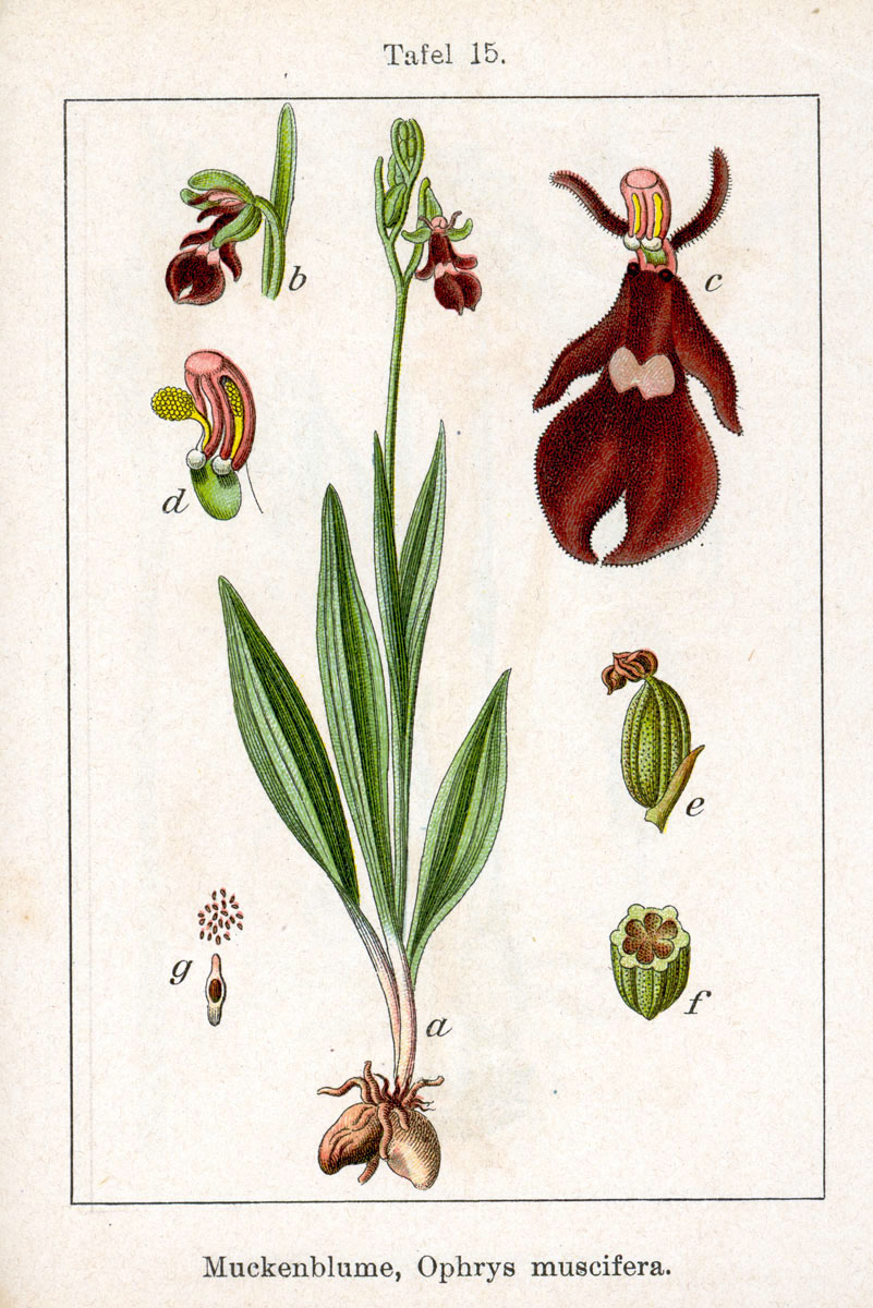 Ophrys insectifera subsp. insectifera, syn. Ophrys muscifera Huds. Original Description Muckenblume, Ophrys muscifera